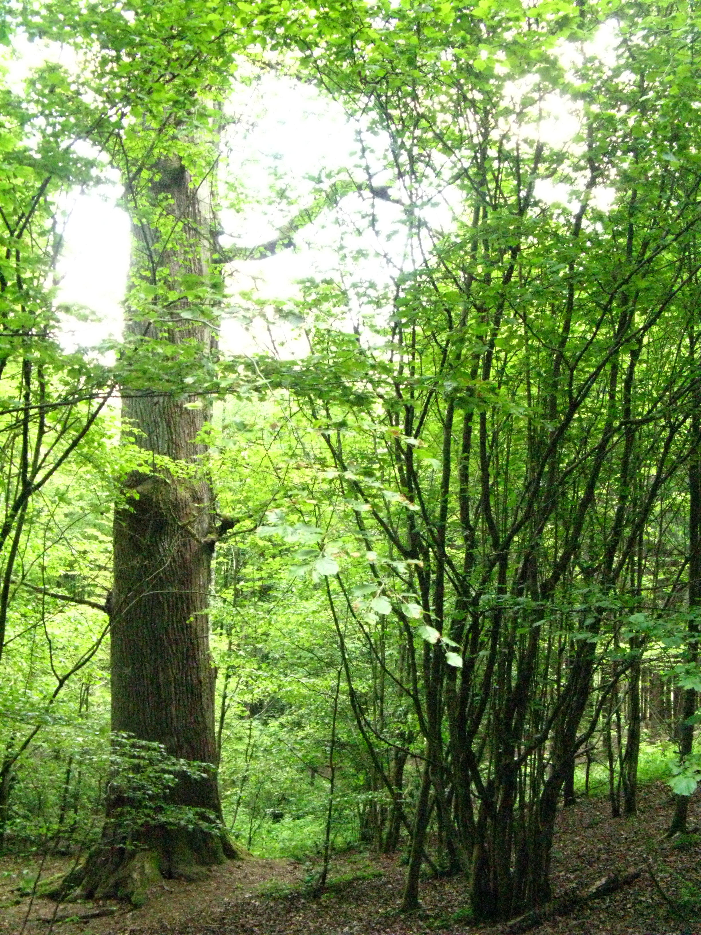 Huge oak (natural monument) in Niederholzklau near the city of Siegen, Germany. Estimated age is 650 years.